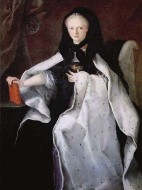 Gabriella Spada (1713-1784), abbess of the chapter of canonesses of Epinal from 1735 to 1784